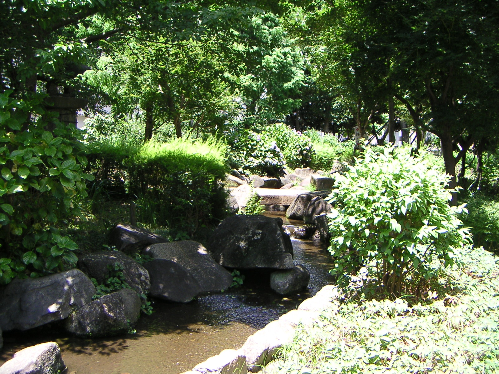 1 Nihon Teien at Yokoamicho Park in Sumida,Tokyo